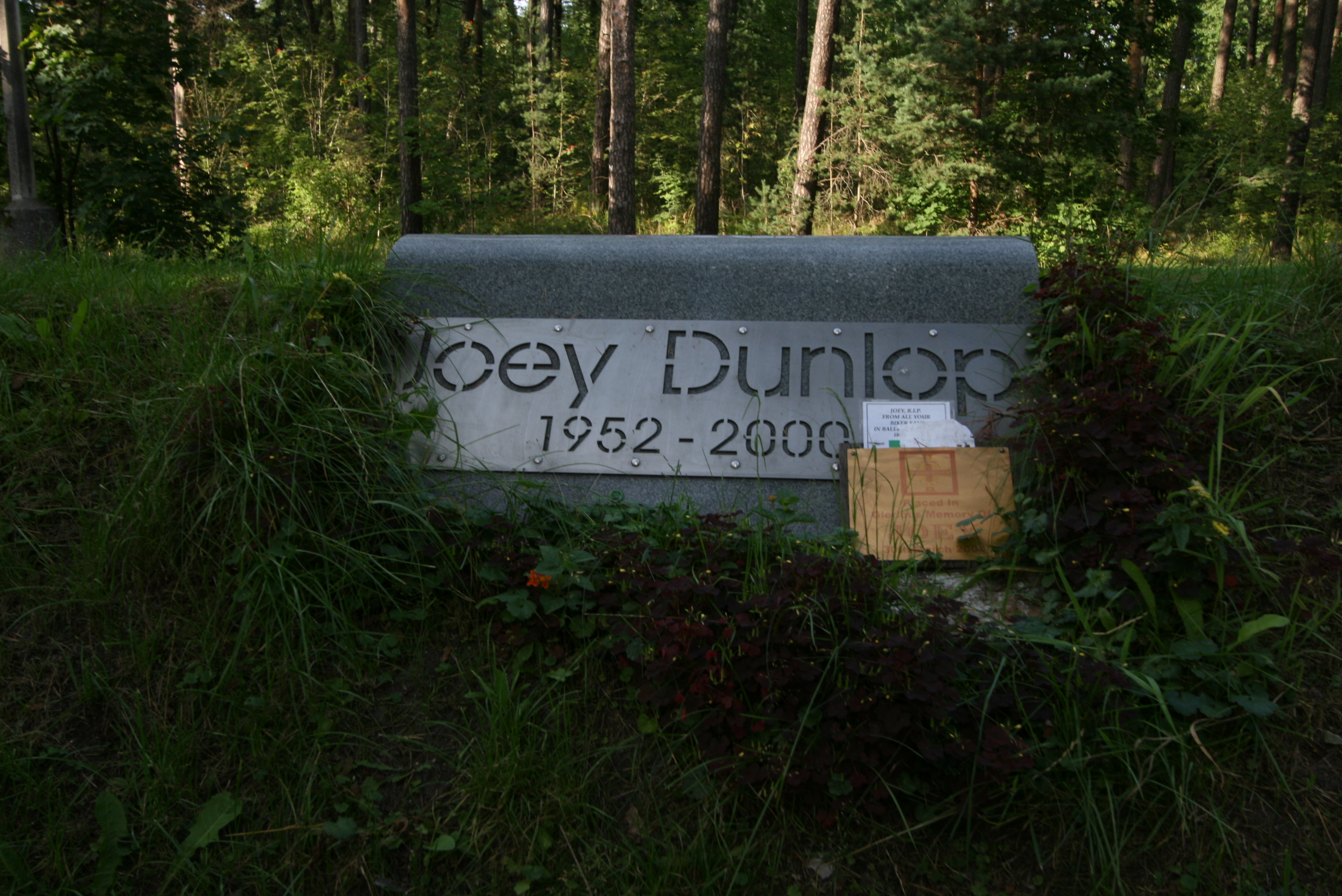 Memorial of Joey Dunlop, an Irish motorcyclist